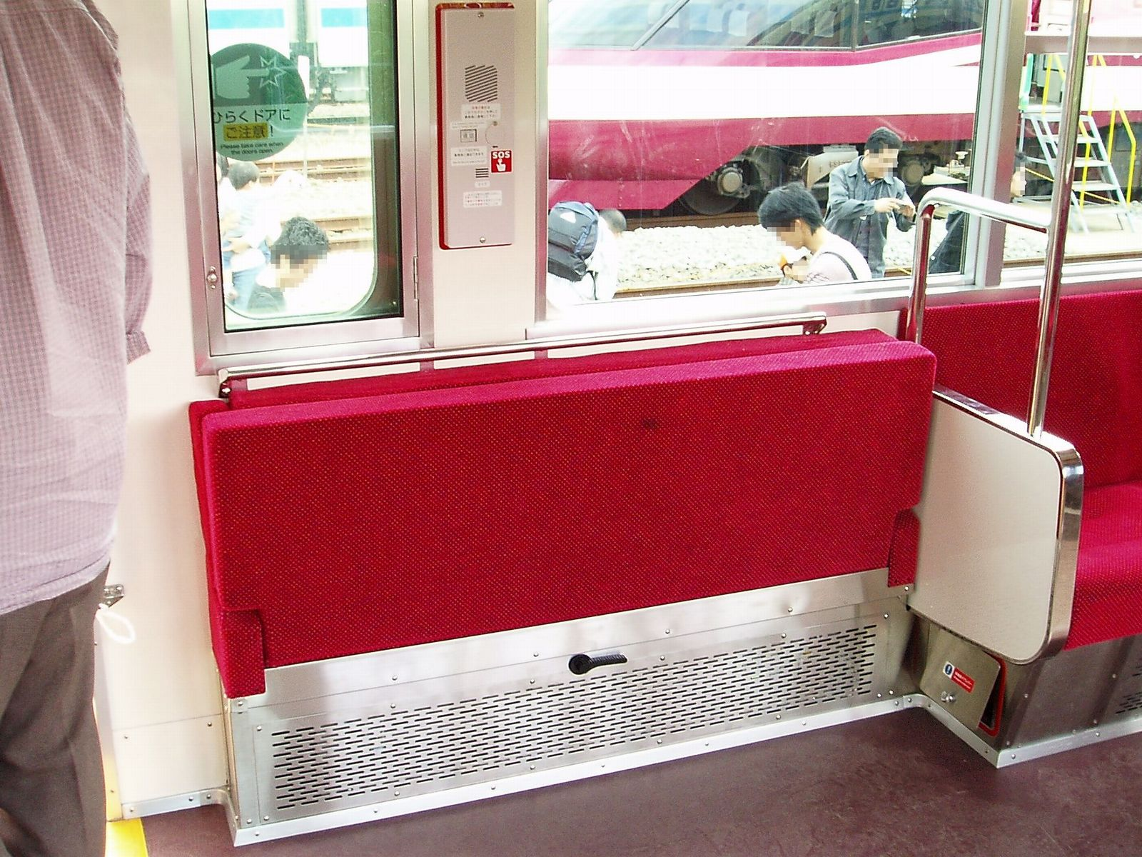 The reception seat is installed in the wheelchair space renewal vehicle of Odakyu 8000 type in the car (storage state).